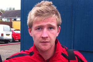 Photo of Alan Power taken by myself following the game between Tamworth and Lincoln City on 8 October 2011 at The Lamb Ground in Tamworth.